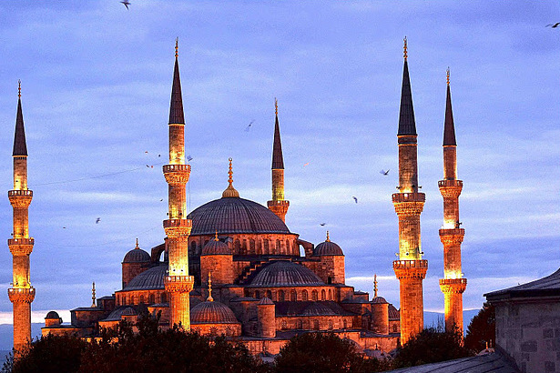 The Blue Mosque in Istanbul